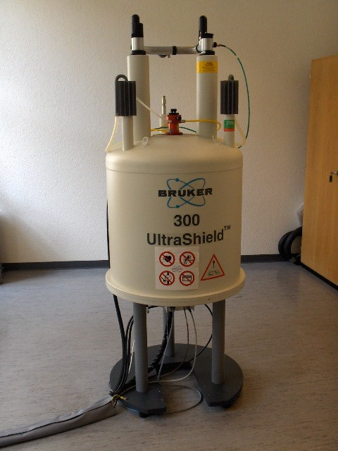 An NMR spectrometer from Bruker